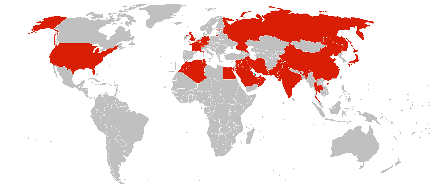 Diplomatic missions of Bahrain